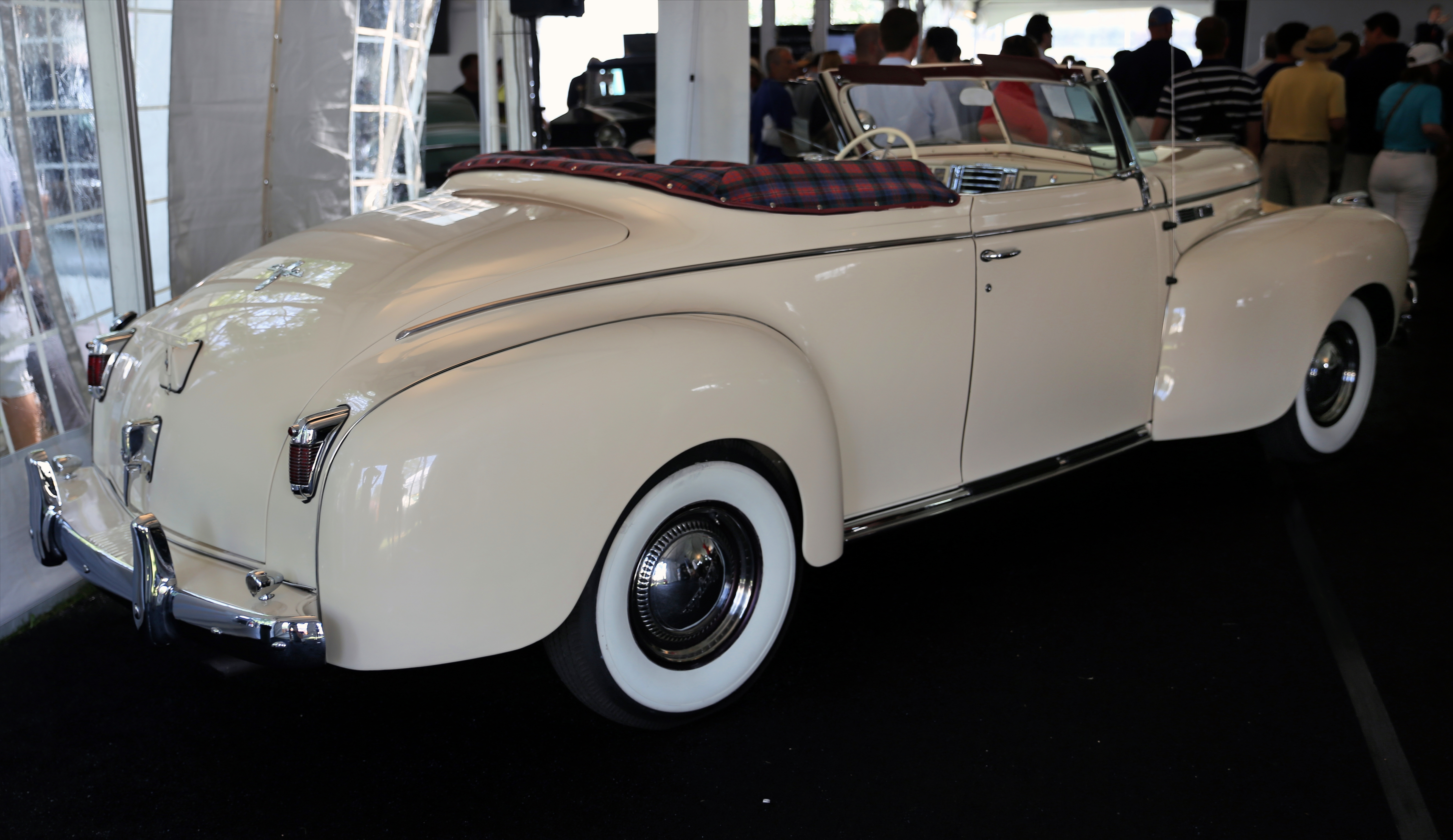 1940 Chrysler New Yorker Highlander Convertible Coupe at the Bonhams auction attached to the 2013 Greenwich Concours d'Elegance. Chassis no 6614233 and engine no C26-3175. The "New Yorker Highlander" was a separate model (only for 1940, later it was offered as a trim package) which features tartan trim all over the place. 845 eight-cylinder convertibles (New Yorkers and New Yorker Highlanders combined) were built this model year.